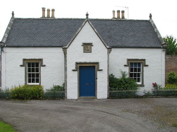 Former Head Gardener's House Cullen House Gardens Dated 1869 built by the 7th Earl of Seafield